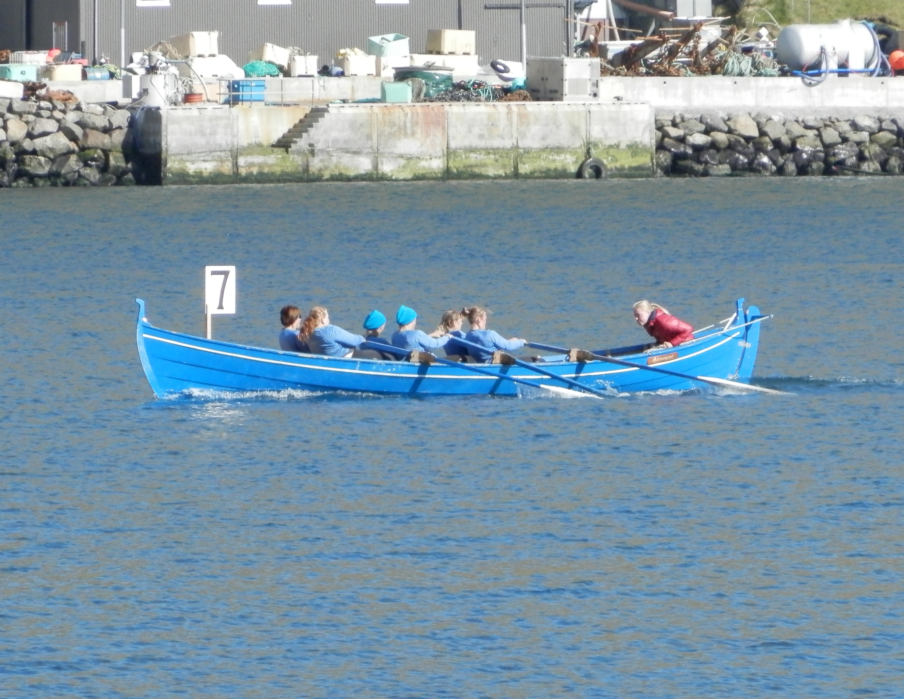 Herningur is a wooden Faroese rowing boat, a 6-mannafar. At Fjarðastevna 2012 in Vestmanna the boat participated in the category 6-mannafør kvinnur Masters, Herningur won the race with 28 seconds: 1. Herningur 05:40.13, 2. Lómur 06:08.11, 3. Gongurólvur 06:08.20. At the following race they competed with the other category, the usual one, and they became second in that race. One of the rowers was Katrin Olsen, who has competed at the Olypics in 2008 in rowing for Denmark. Føroyskt: Herningur er eitt 6-mannafar, sum Róðrarfelagið Knørrur úr Havn eigur. Henda myndin er frá Fjarðastevnu 2012, tá kvinnurnar, sum fyrr hava mannað Jarnbard mannaðu bátin til Masters róðurin hjá kvinnum. Tær fingu tó onga kapping, vóru suverent bestar við 28 sekundum, og til róðurin á Vestanstevnu vikuna eftir róðu tær ímóti teimum vanligu 6-mannaførunum við kvinnum, og har vóru tær frammanfyri tveir bátar sum hava róð nógv longri, tær gjørdust nummar tvey á Vestanstevnu.